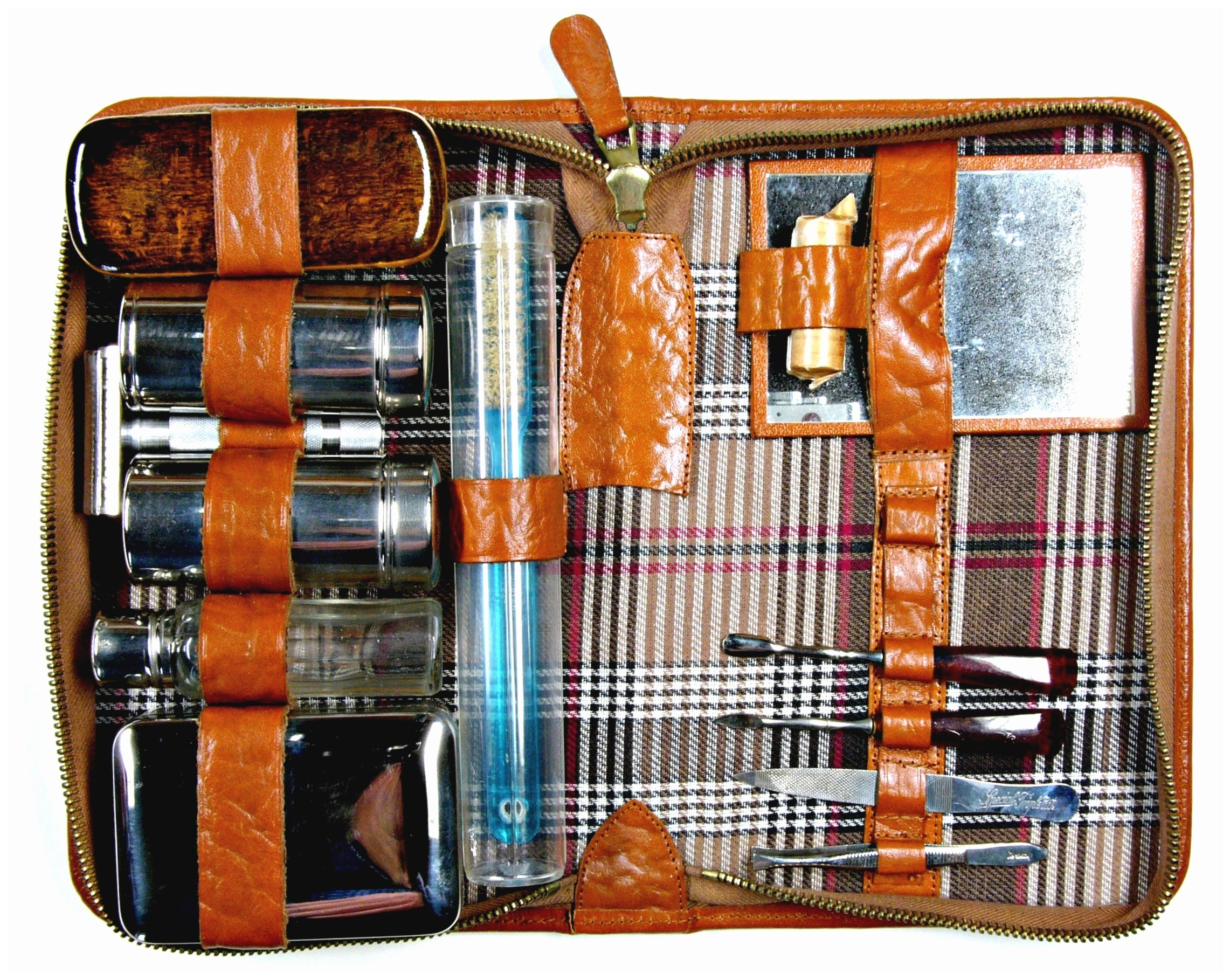 Manicure case, manicure set or manicure kit